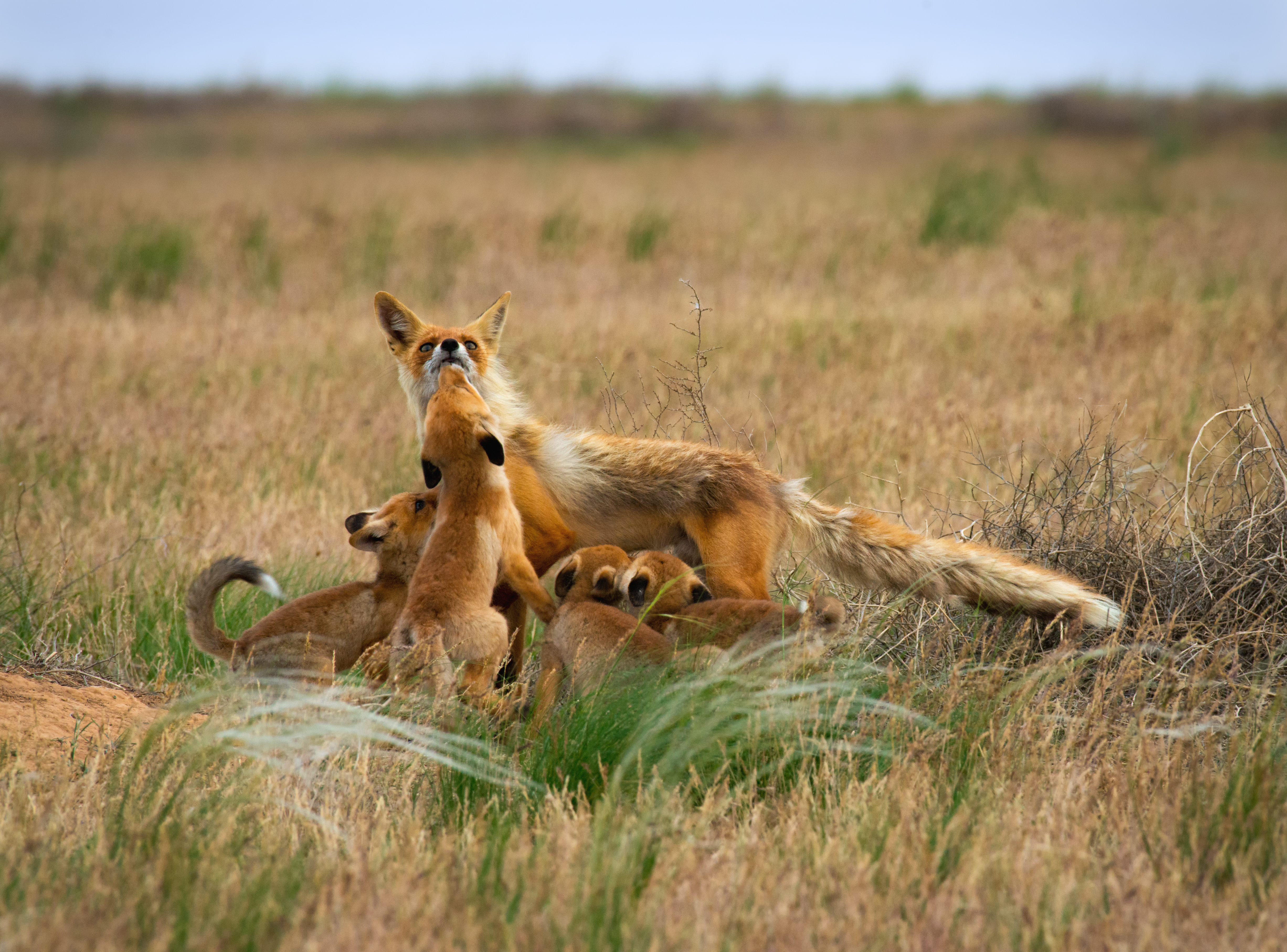 Fox family in the Chyornye Zemli Nature Reserve, Republic of Kalmykia This image is related to the protected area of Russia number 0800027